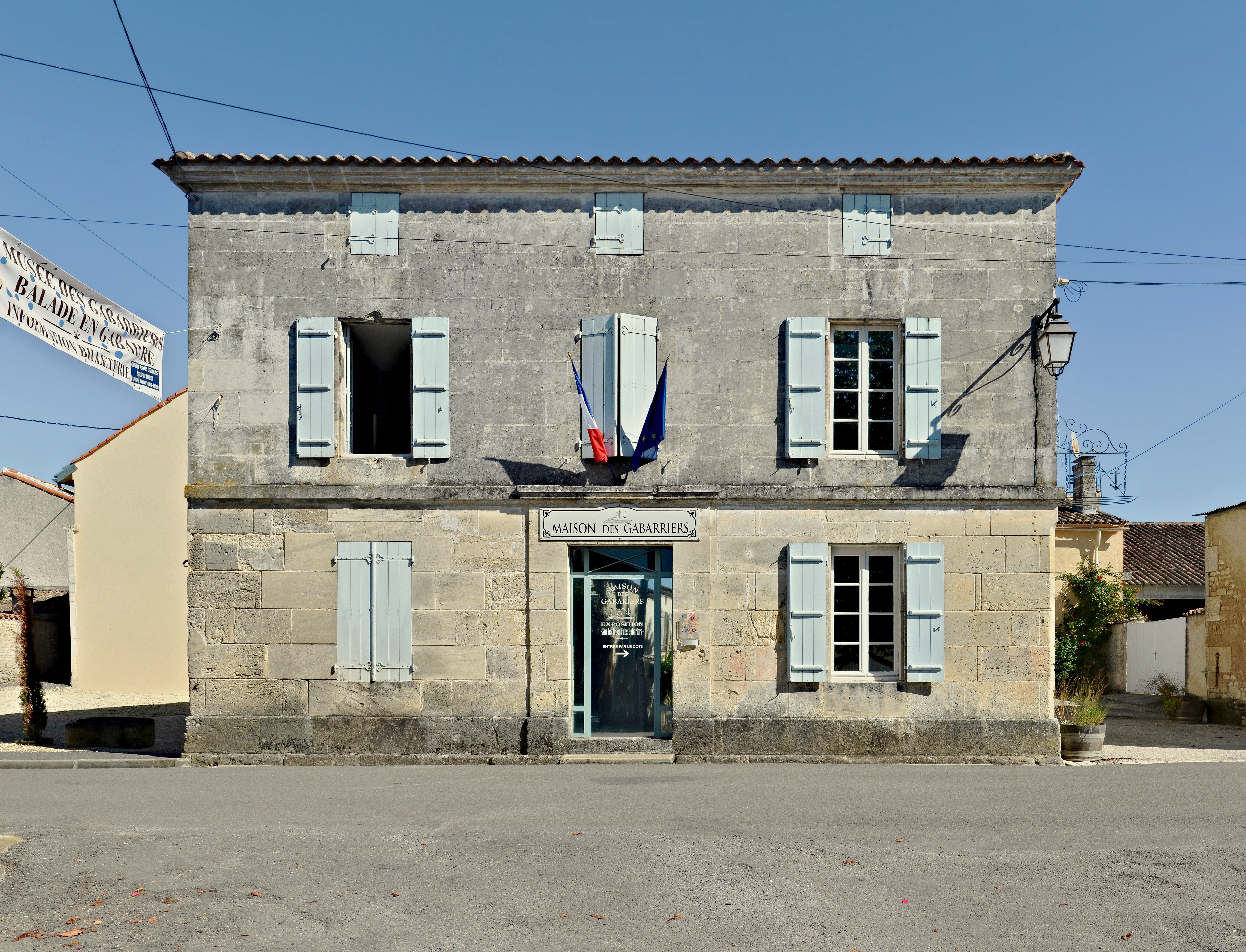 Former typical house now the town hall and the museum of "gabarriers", i. e.flat-bottomed boats builders in the past centuries. Saint-Simon, Charente, France.